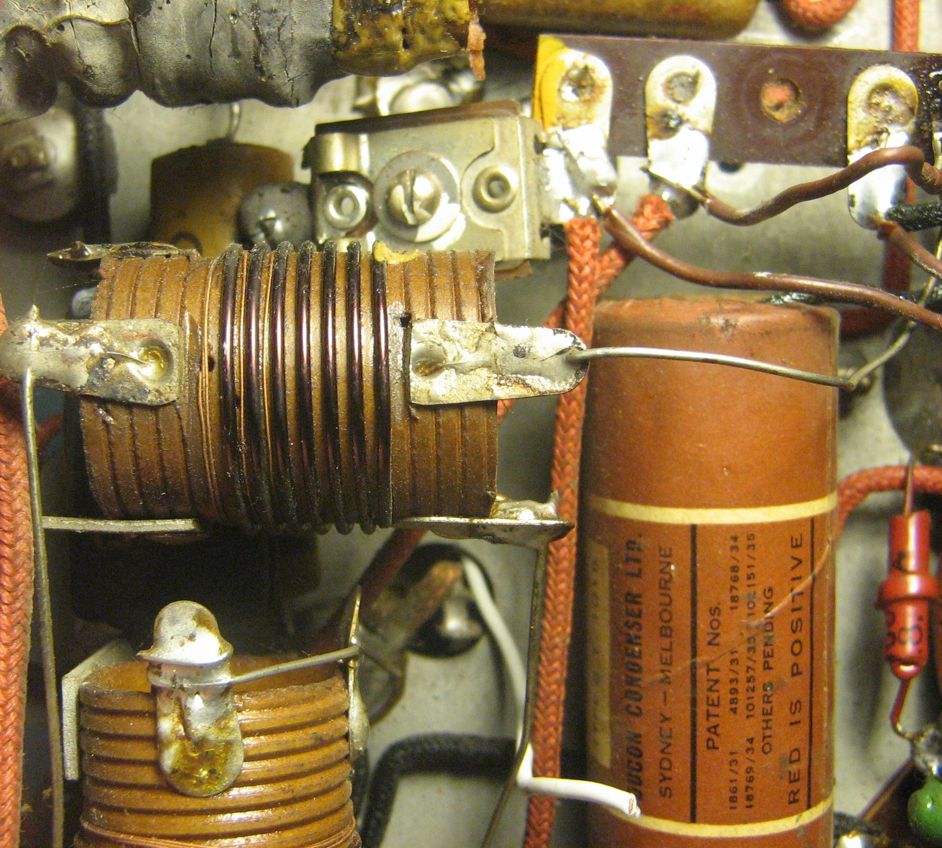 Section of a 1930's radio chassis, showing 2 coils, electrolytic capacitor and various other components.